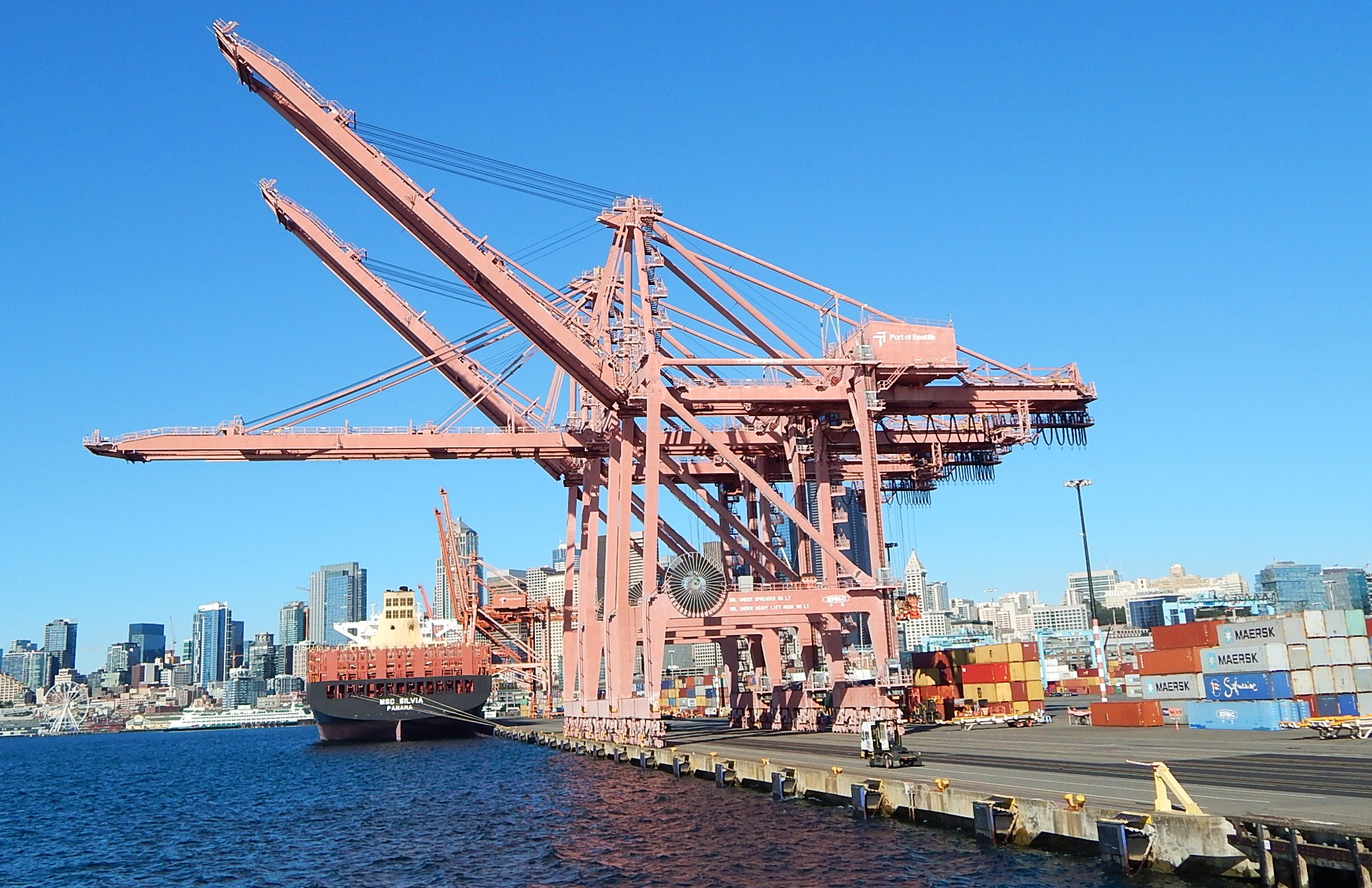 Port of Seattle cranes on a sunny October day. Seattle WA